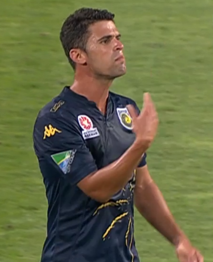 Luis Garcia in away strip playing for the Central Coast Mariners in 2016